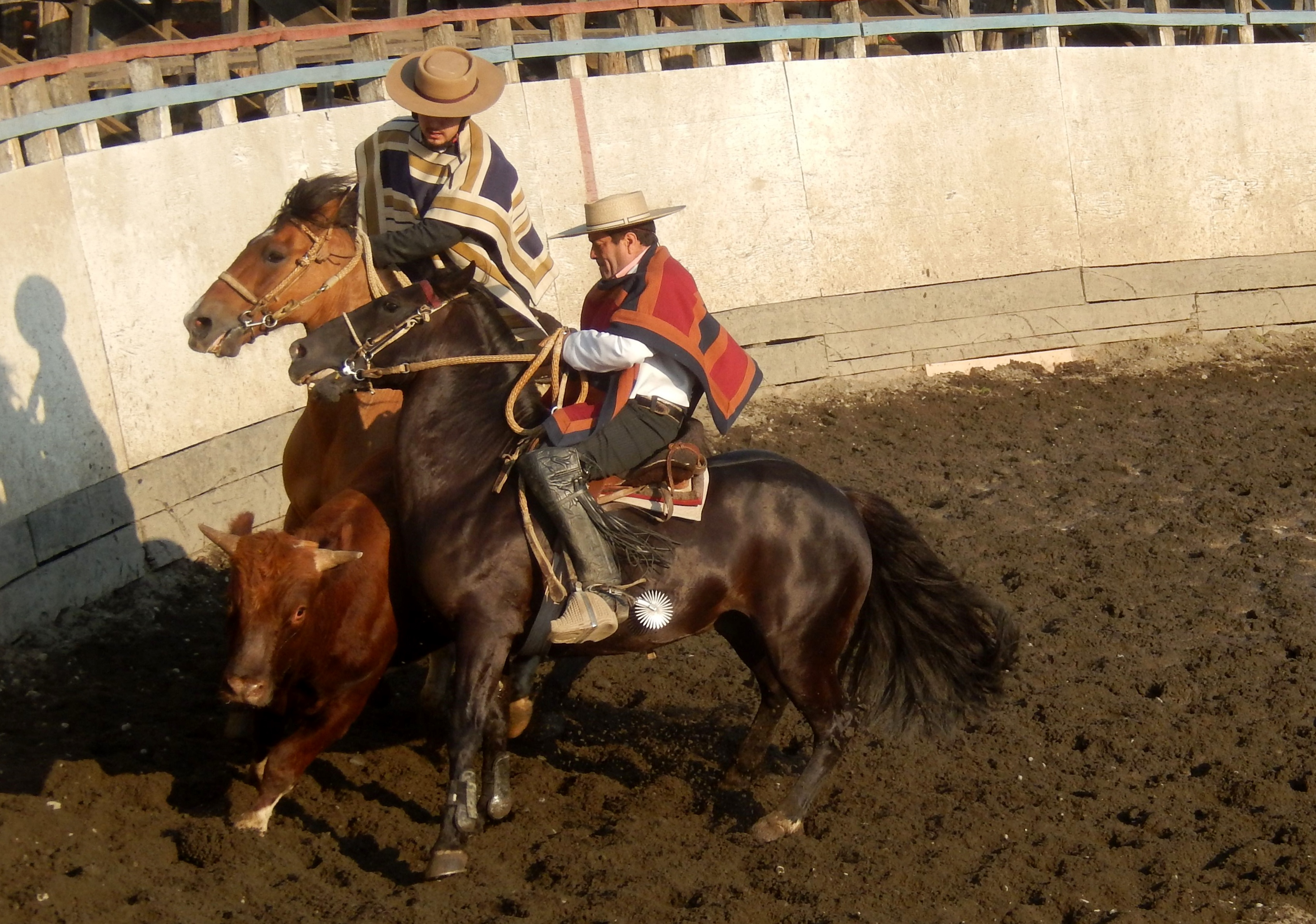 Competicion de rodeo, deporte tipico chileno. Isla Grande de Chiloe, Chile. 12/2013